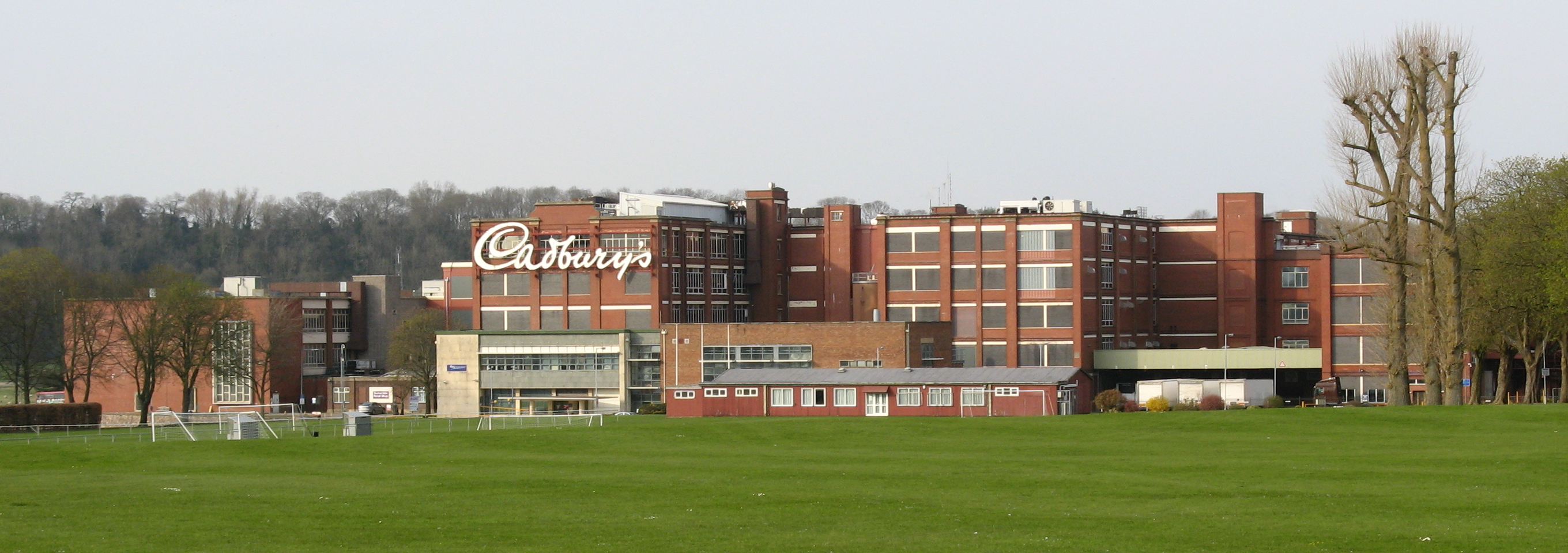 Cadbury's Somerdale Factory, Keynsham, north side from front lawns.